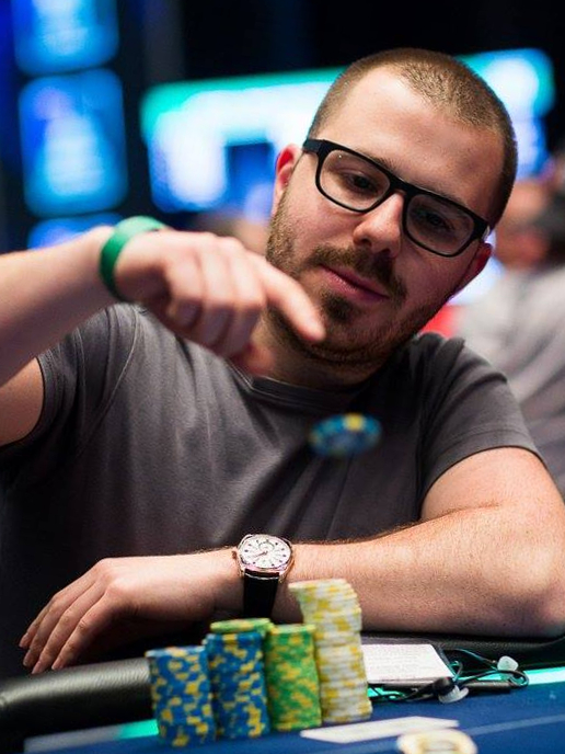 Dan at the tables playing poker